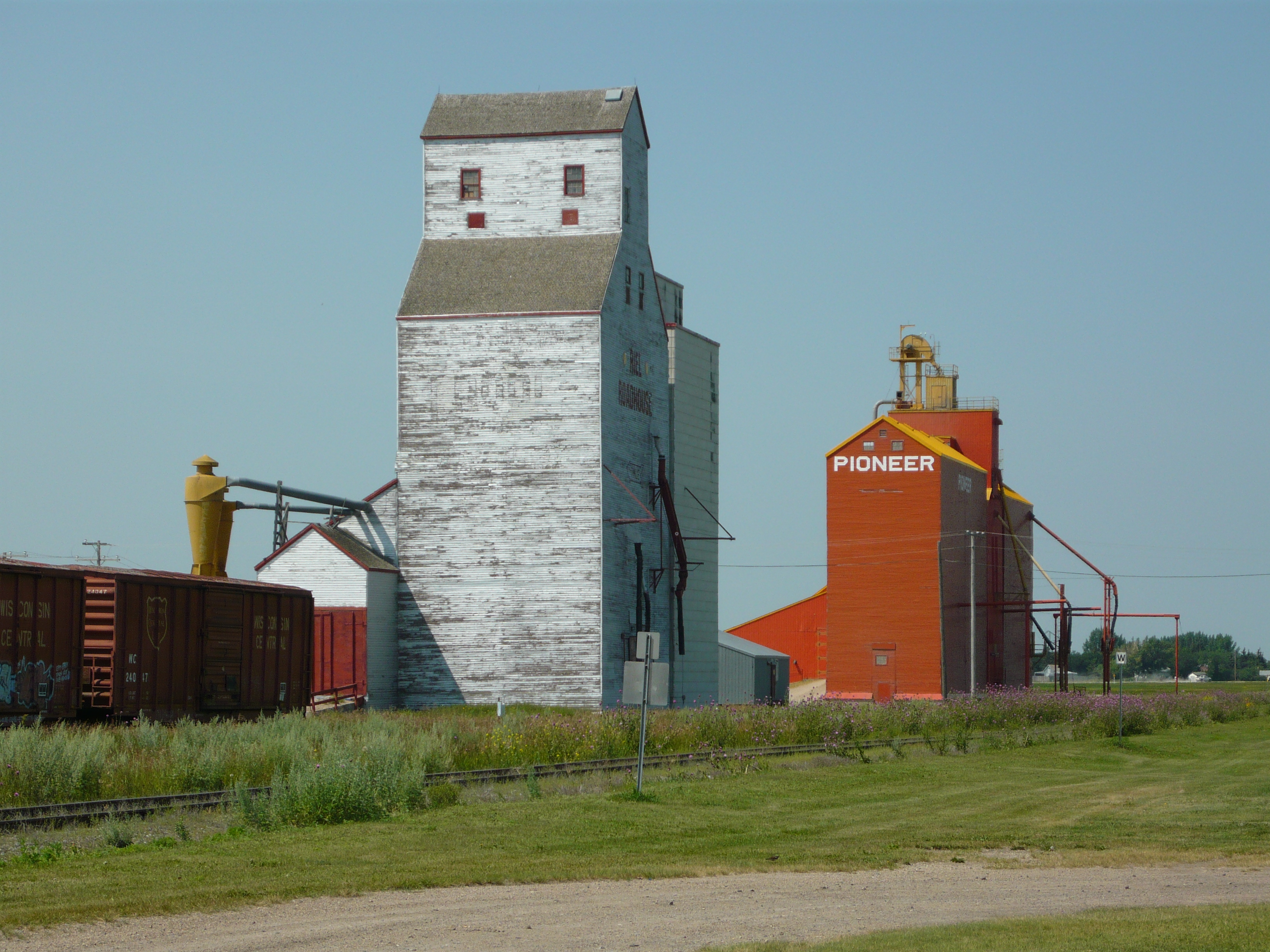 Grain elevators along Railway Street in Davidson, Saskatchewan, Canada.